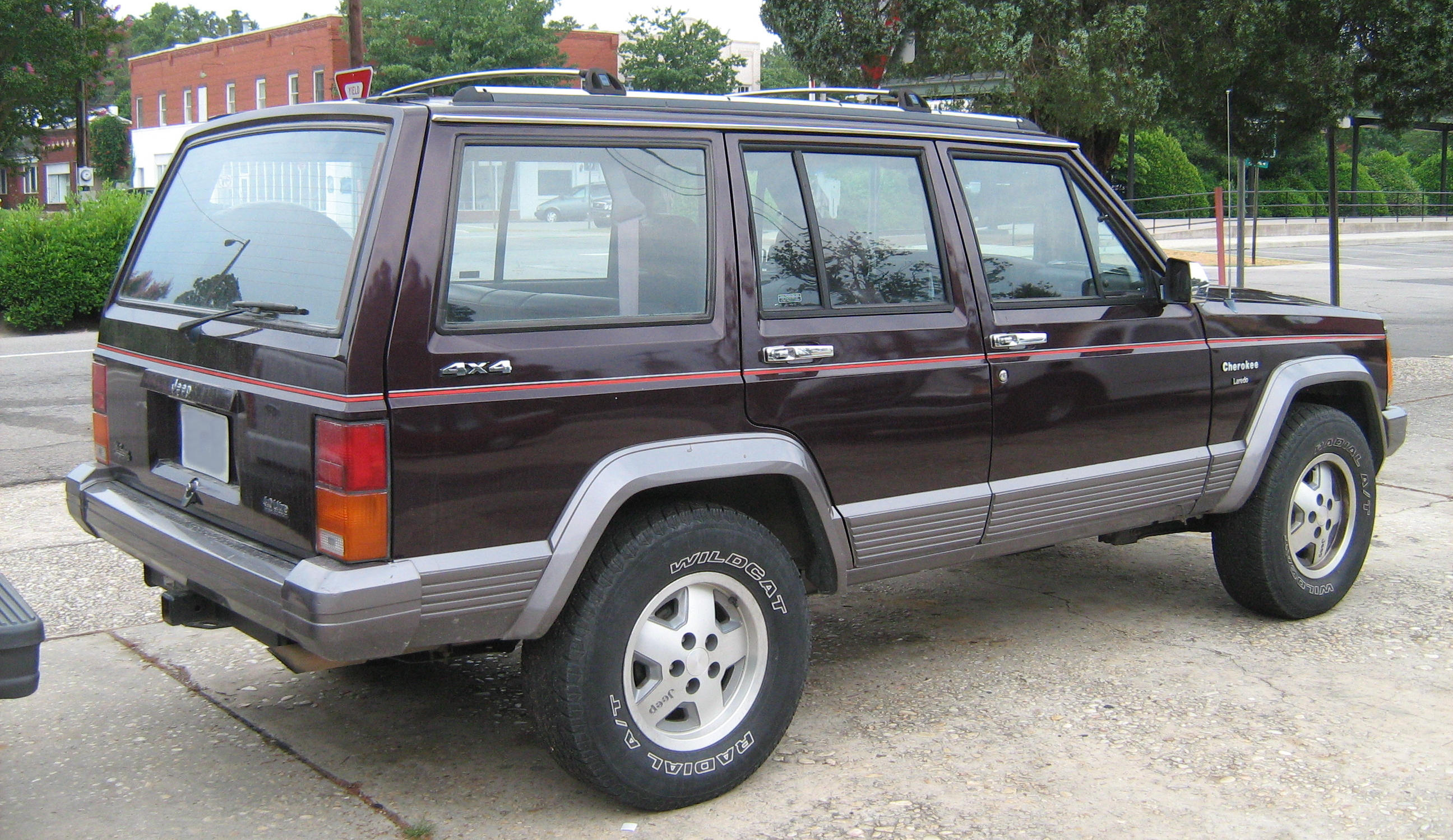 1992 Jeep Cherokee (XJ) Laredo four-door SUV finished in burgundy with a burgundy (deep red) interior.